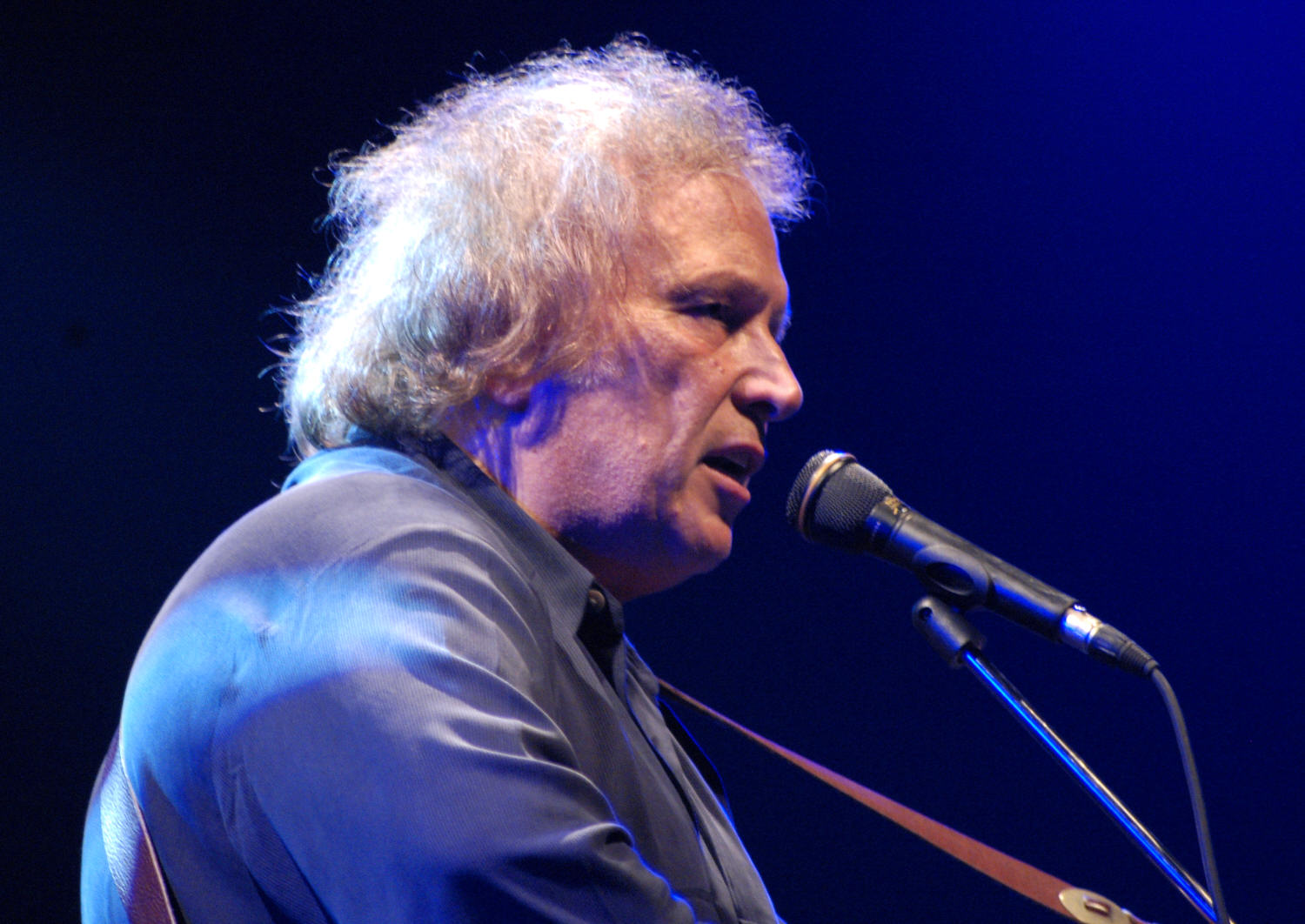 Don McLean in concert in Westport, CT